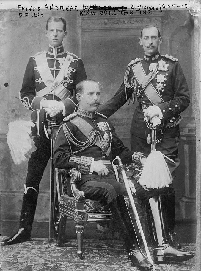 L-R: Prince Andrew, Crown Prince Constantine (seated) and Prince Nicholas of Greece. Given that Prince Andrew is depicted as a Second Lieutenant, the photo must have been taken shortly after his commission in 1901.